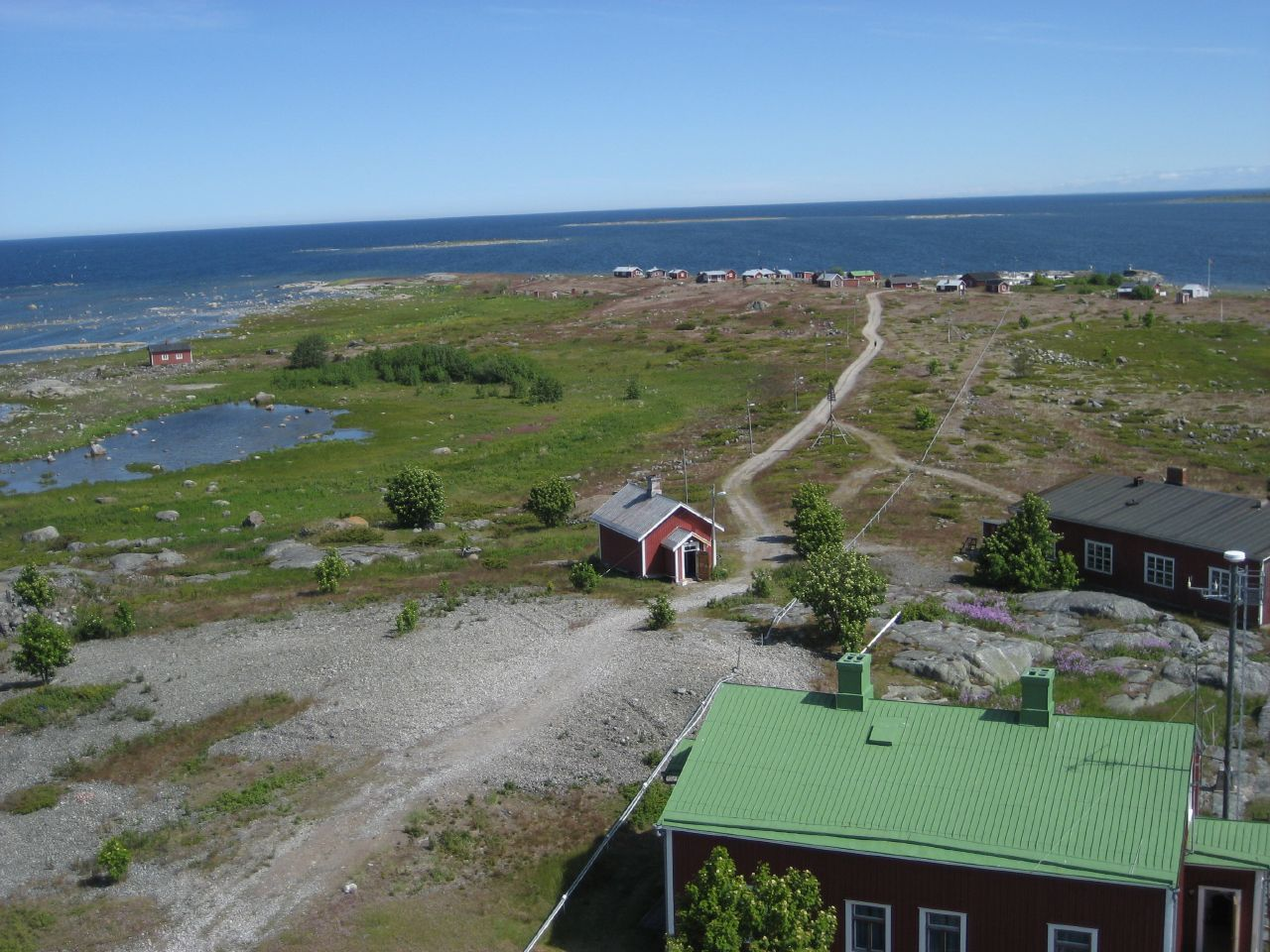 view from the lighthouse at Norrskär, Korsholm, Finland